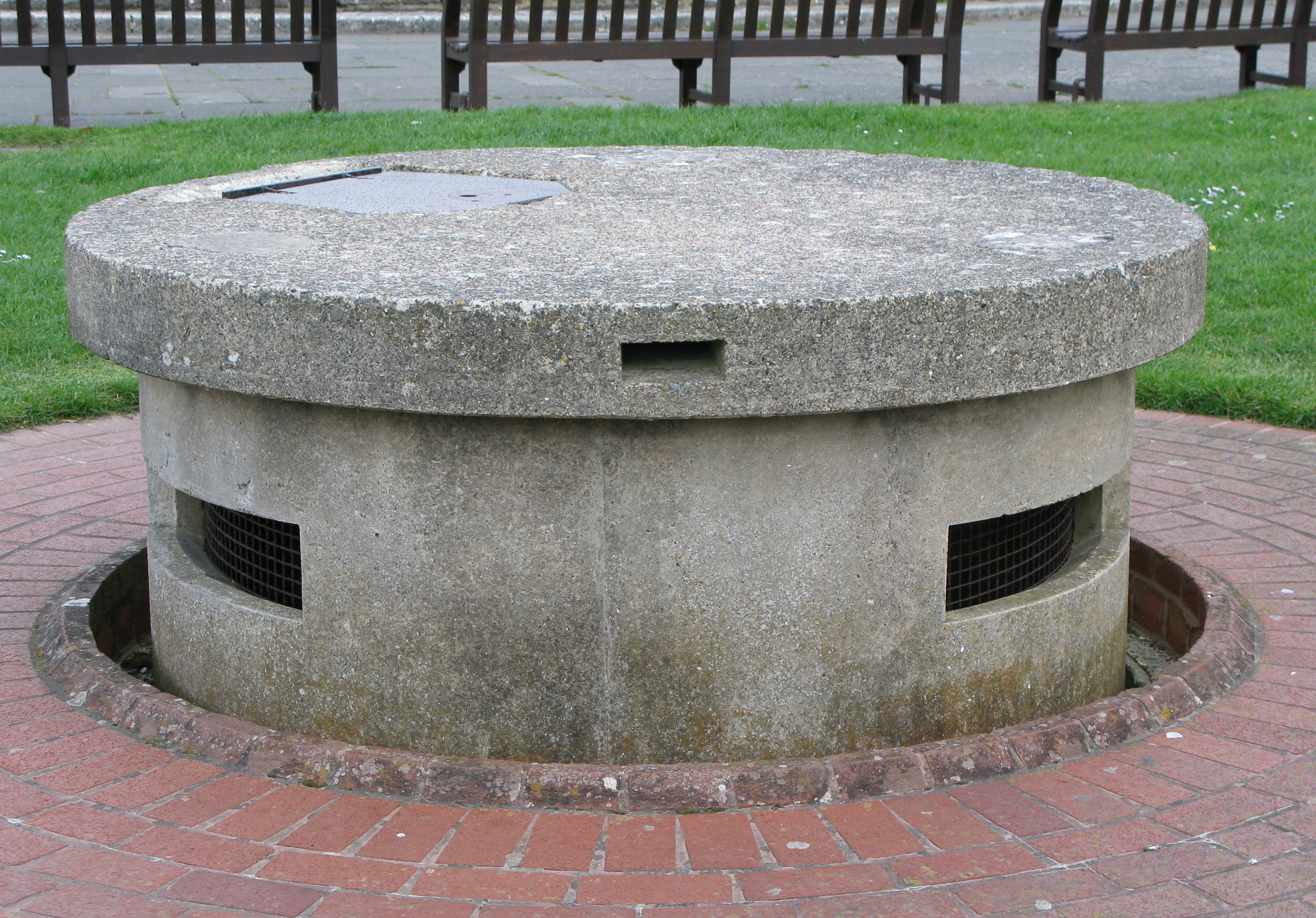 A Pickett Hamilton Fort in southsea. An example of a retractable pillbox